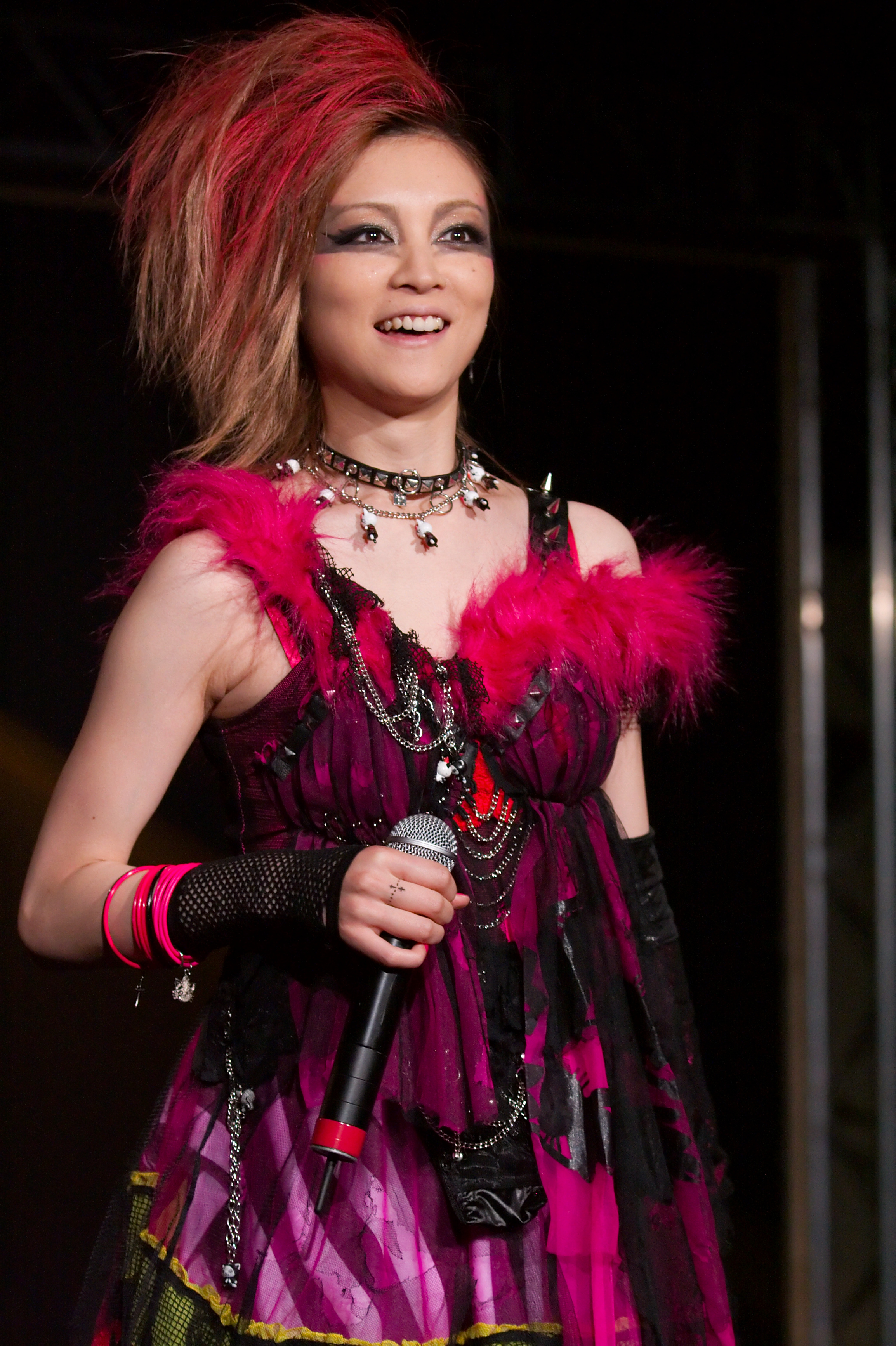 Hangry & Angry live at Chibi Japan Expo 2009 (Paris, France).